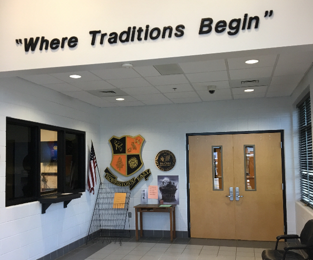 The entrance to Morristown-Hamblen High School East taken in 2018. It is located in Morristown, Tennessee, U. S.